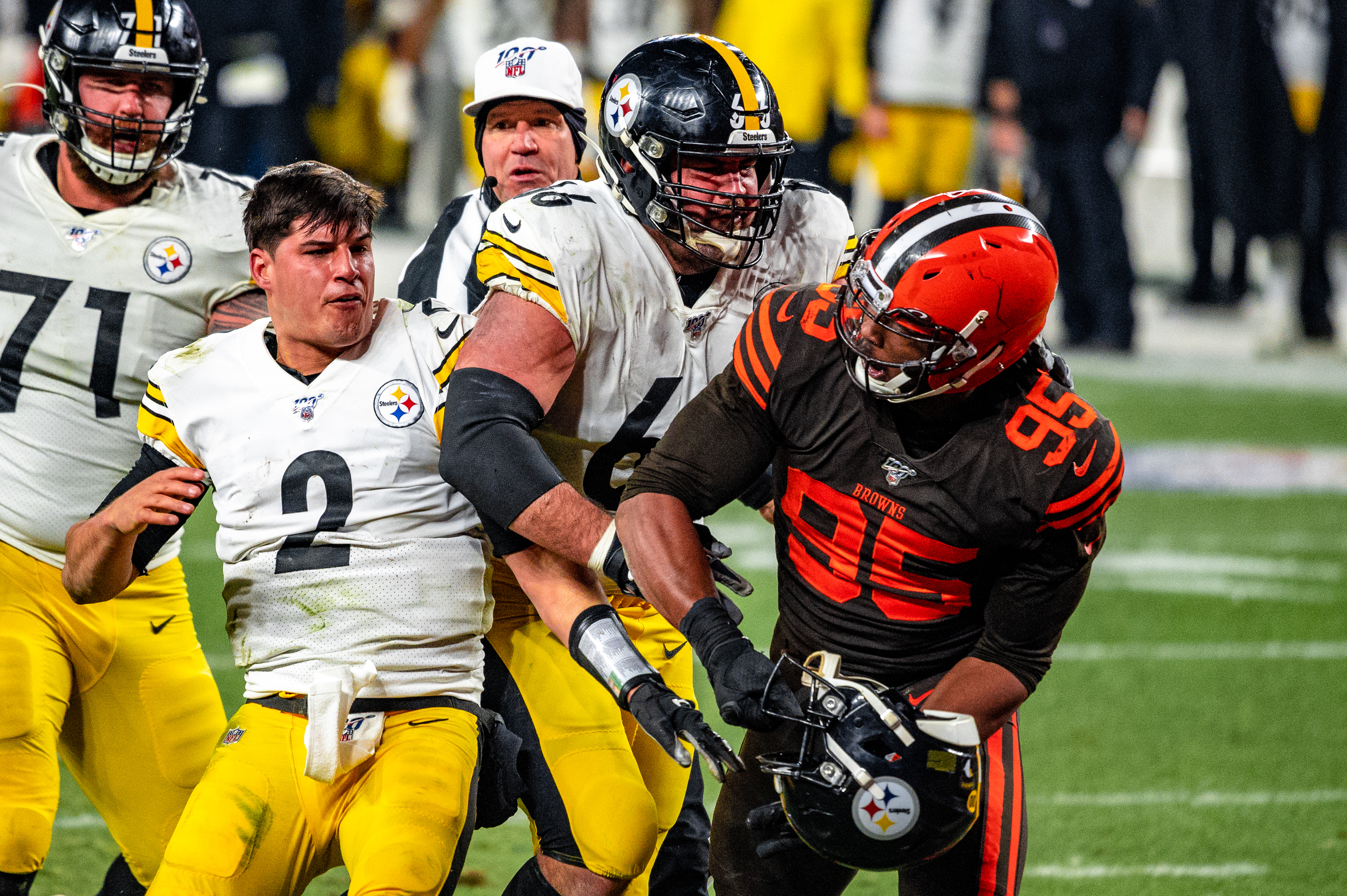 Mason Rudolph and Myles Garrett